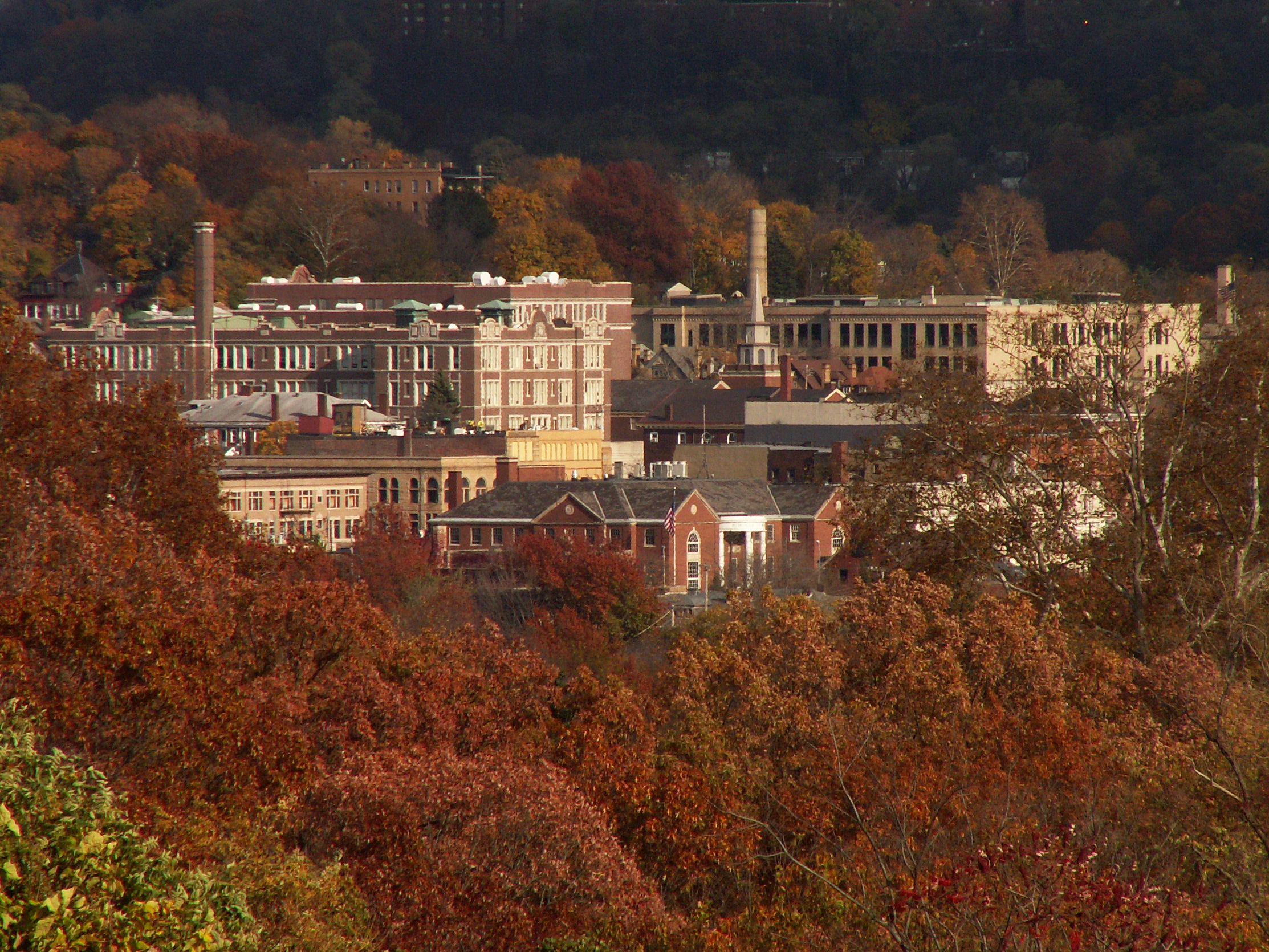 The central business district of Wilkinsburg, vignetted by fall leaves, as seen from the Homewood Cemetery